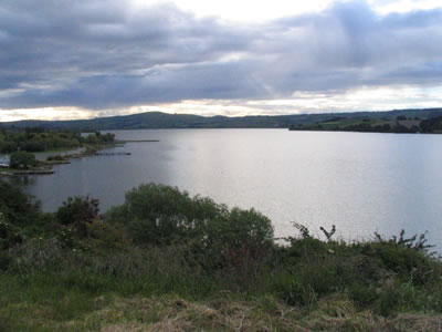 Lake Waihola, South Otago, New Zealand from Titri Road, Waihola